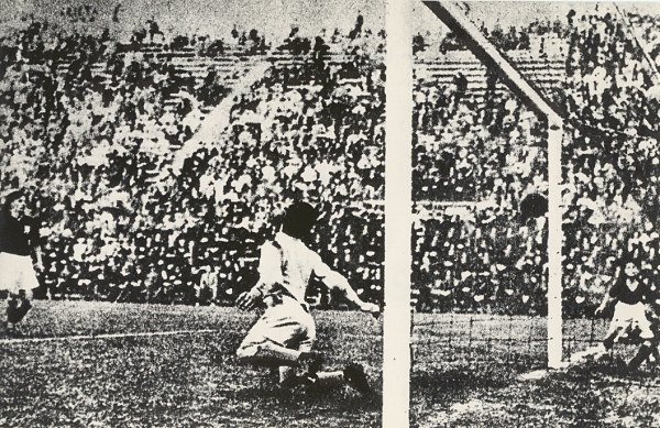 Schiavio's goal in 1934 World Cup final, against Planicka